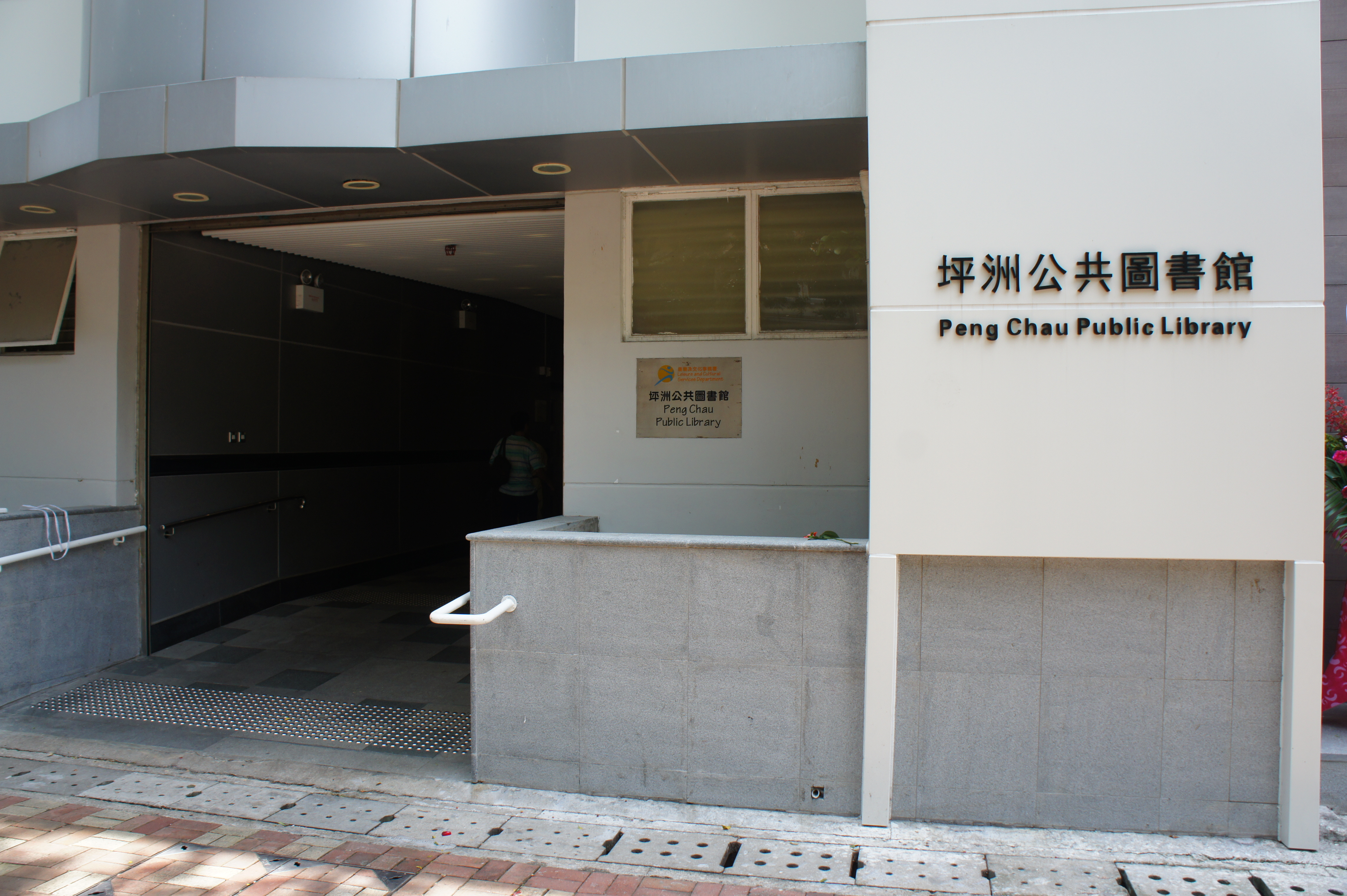 Peng Chau Public Library, G/F, Peng Chau Municipal Services Building, 6 Po Peng Street, Peng Chau, New Territories, Hong Kong.